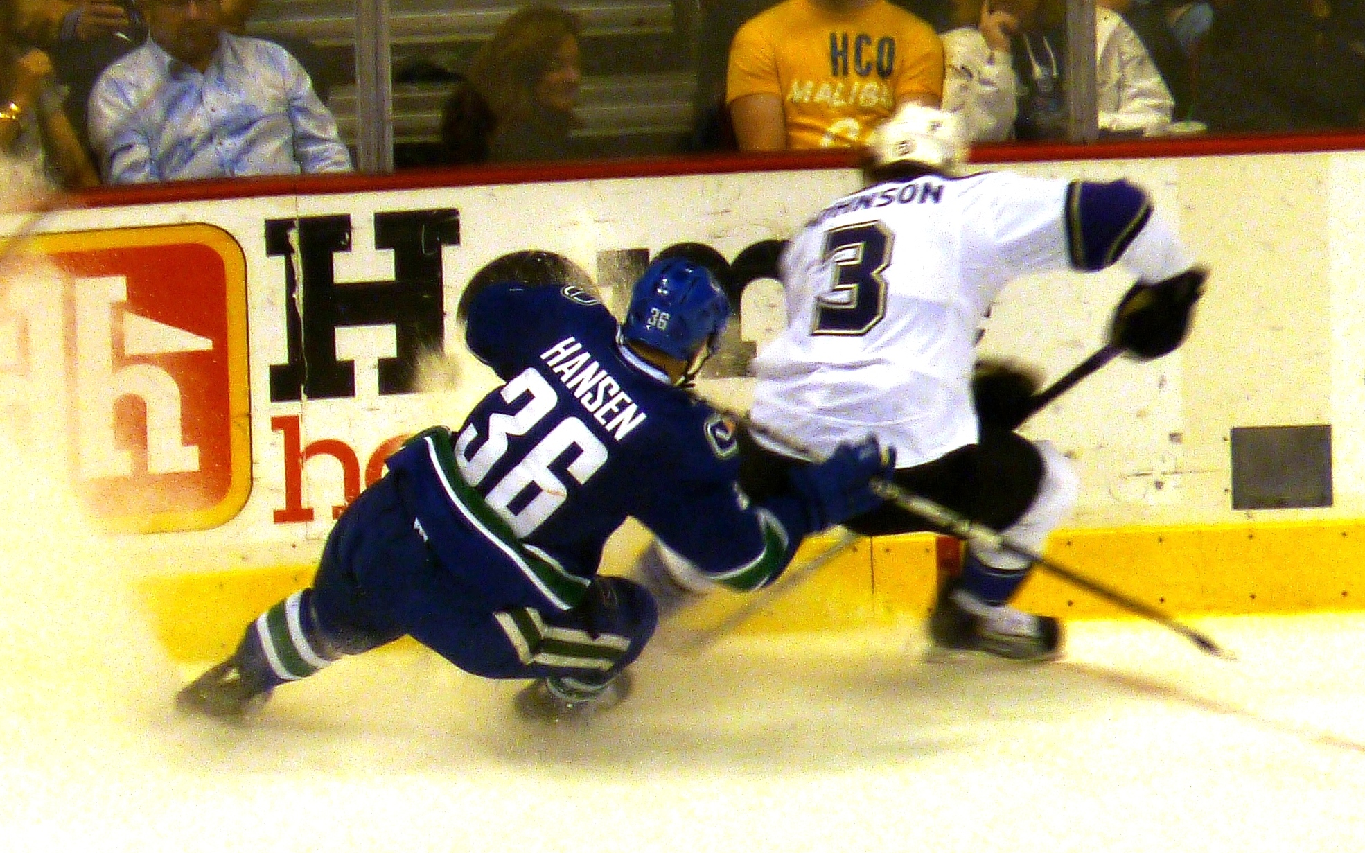 Canucks forward Jannik Hansen (left) and Los Angeles Kings defenceman Jack Johnson (right) during Round 1 of 2010 Stanley Cup Playoffs on April 17, 2010.